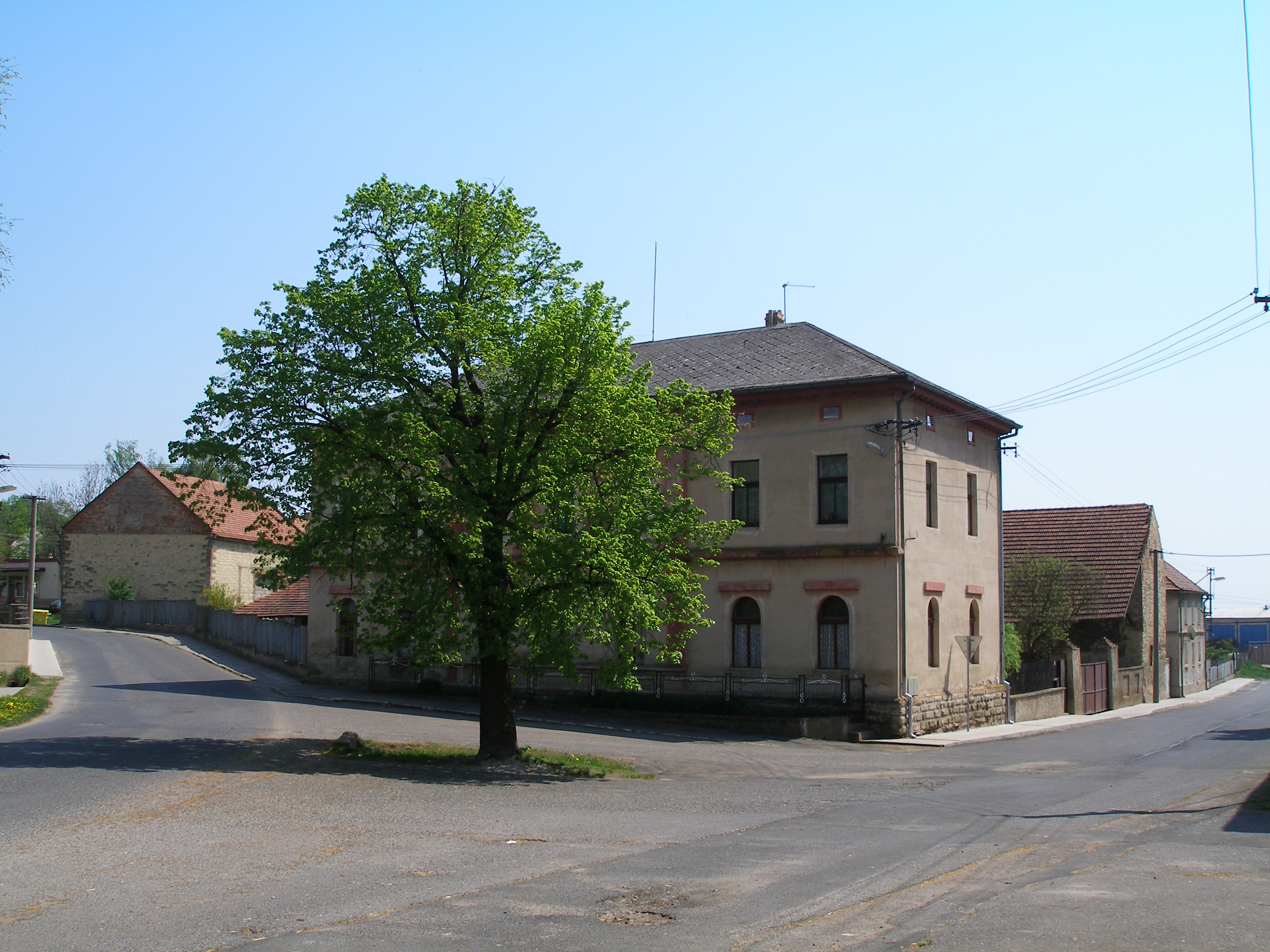 The tree at the crossroads in Libkovice pod Řípem.